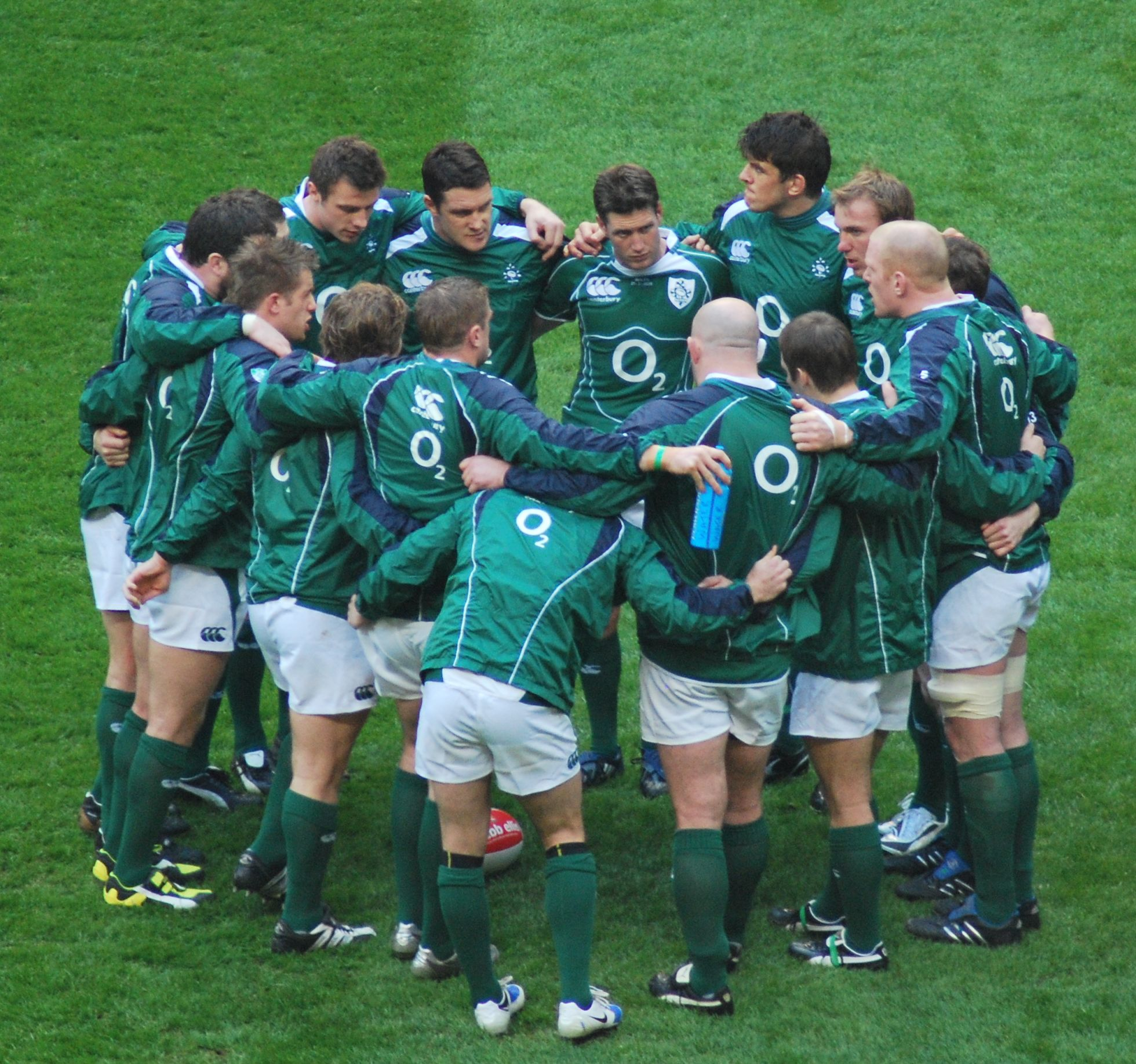 Ireland rugby union : 2009 Ireland grand slam day.